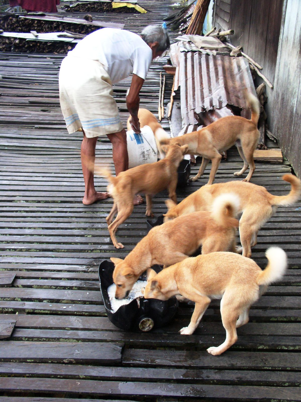 Borneo dogs (a.k.a. Iban hunting dogs and more...) feeding